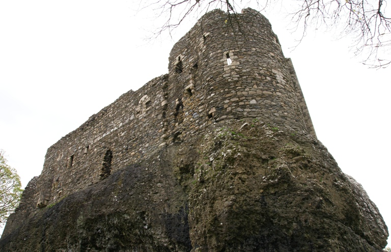 Dunstaffnage Castle, Argyll and Bute, Scotland - from north west